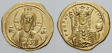 Theodora. 1055-1056 AD. AV Tetarteron Nomisma. Bust of Christ, holding Gospels; IC XC to left & right +QWEOW AVGOVC, crowned bust of Theodora, holding scepter & globus cruciger. DOC III 2; BN 5-10; SB 1838.